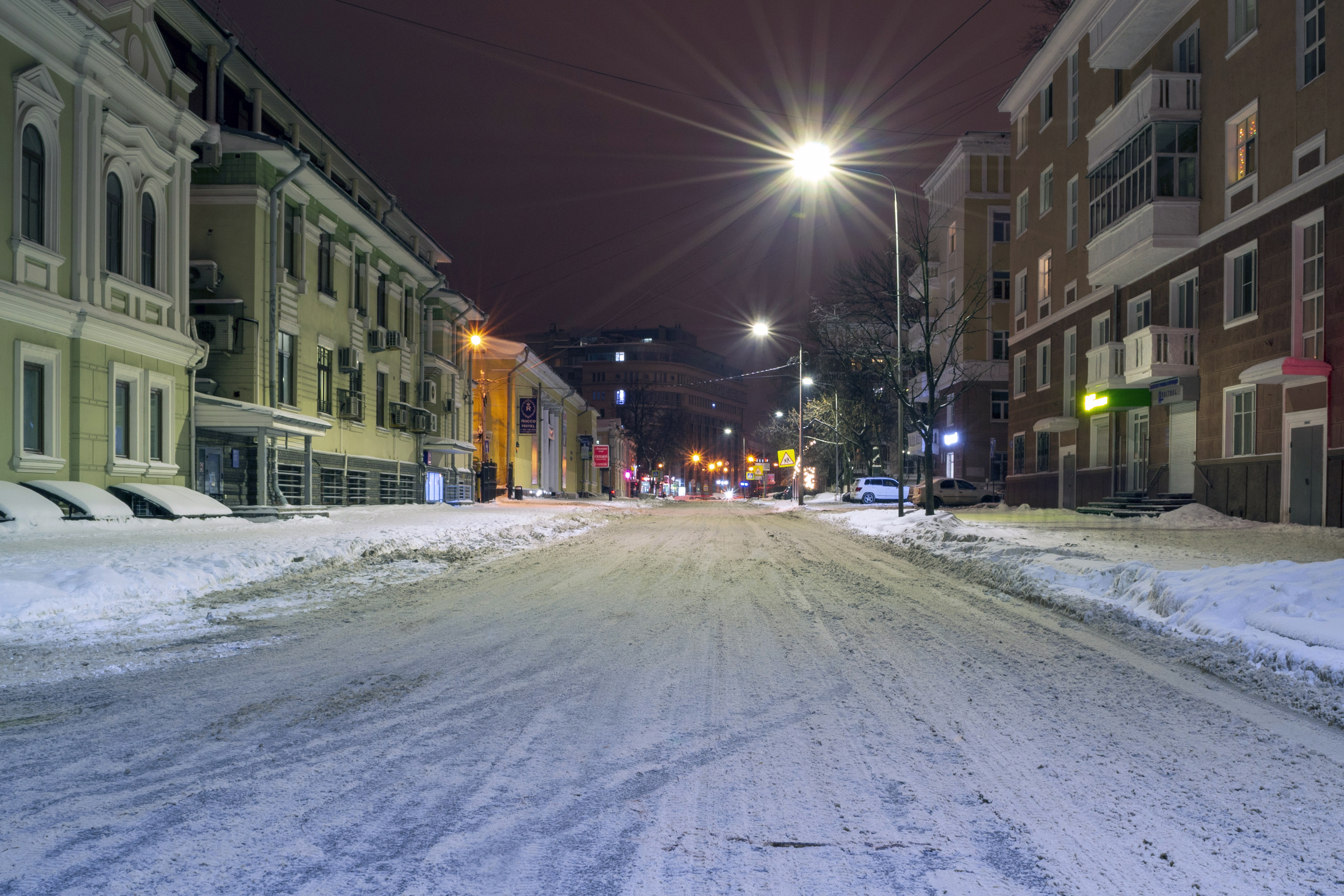 Minin Street in Nizhny Novgorod at night